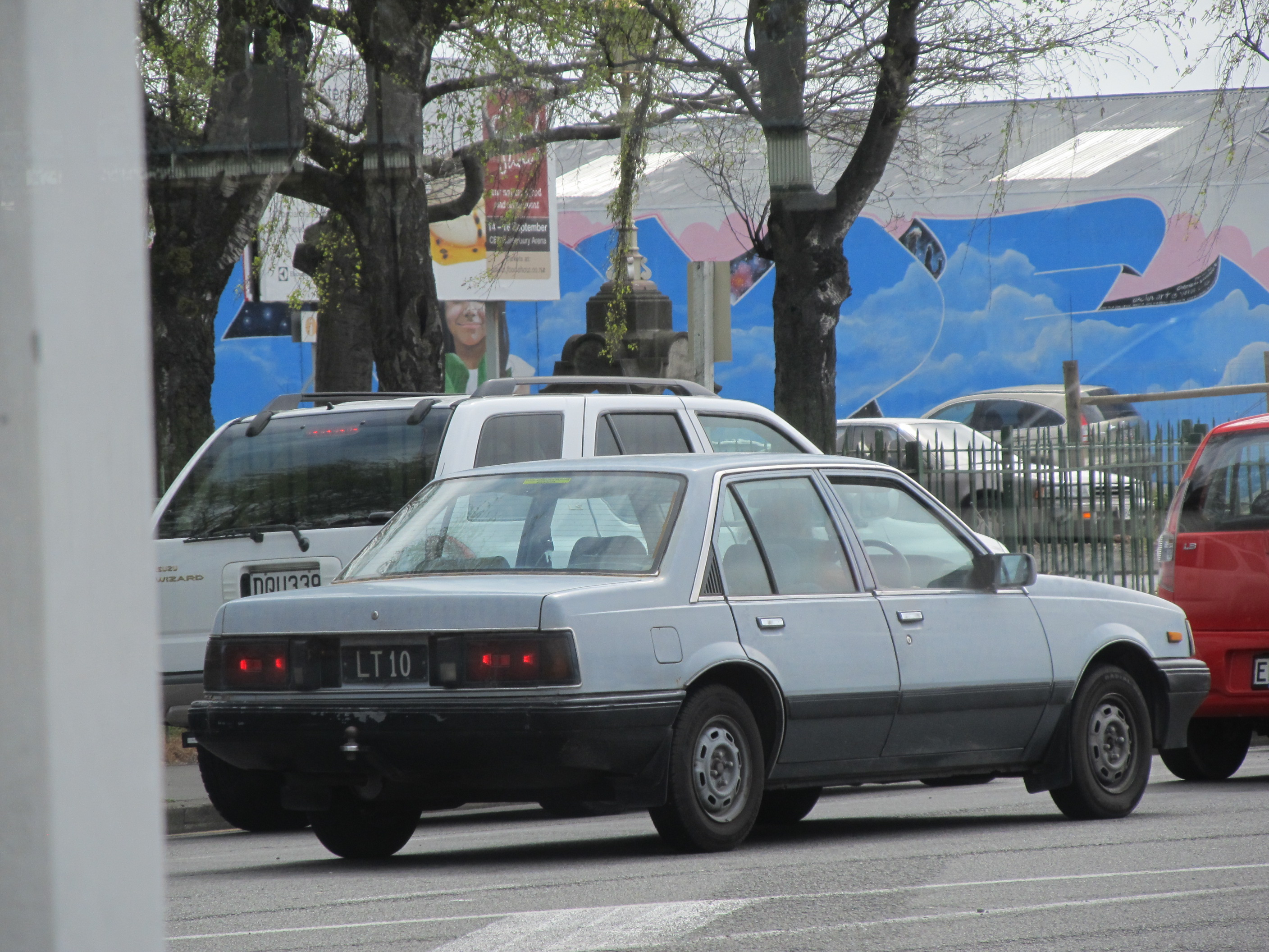 LT10 Camiras are now rare sights in NZ, especially older ones like this. I've heard they weren't overly liked when new, but they all that bad? This was a tidy one, and a lucky catch as well - I took this through the window at McDonalds!